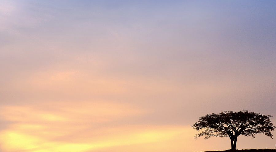 University Agriculture Park